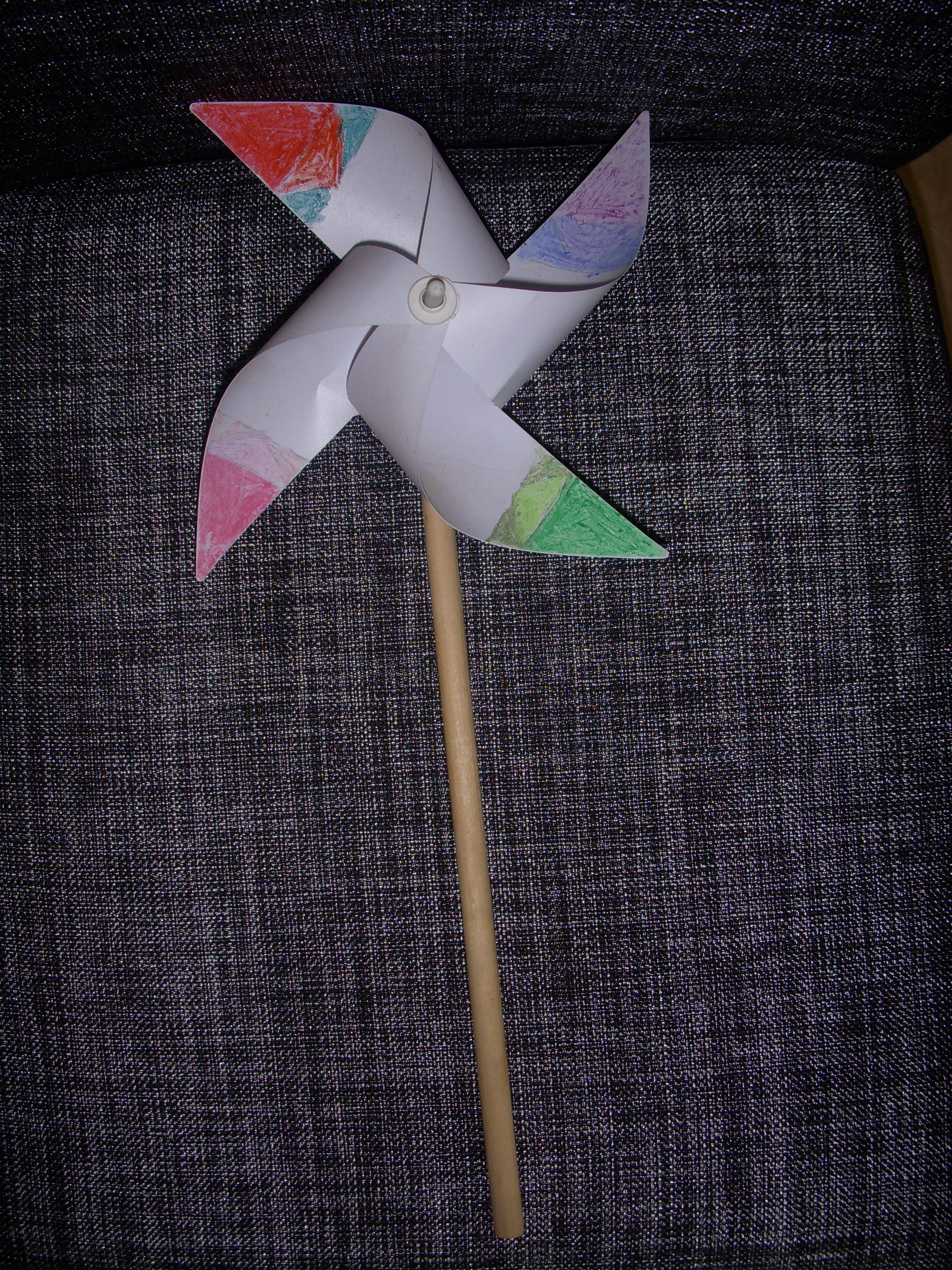 Toy fan that spins when placed against wind